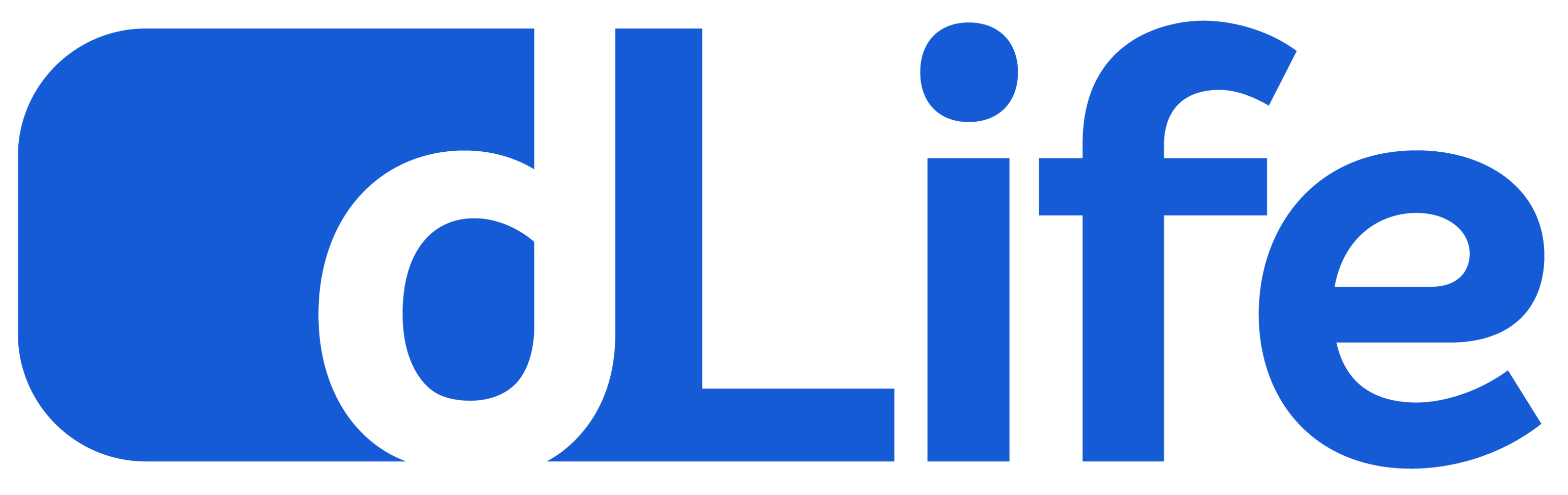 dLife Company Logo